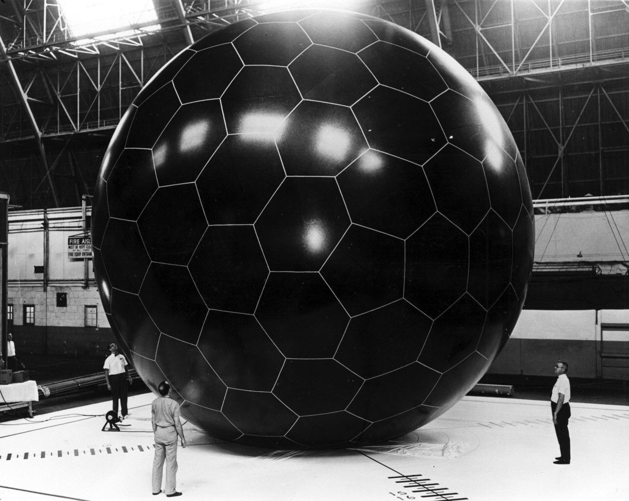 OV1-8 Passive Communication Satallite (PASCOMSAT) Gridsphere To reduce the effects of solar pressure and space drag, the USAF contracted with the Goodyear Aerospace Corp. for construction of a 30-foot diameter grid-sphere balloon. It was made of a soft aluminum wire grid imbedded in a special plastic designed to dissolve in space under the sun's strong ultraviolet rays. On July 13, 1966, the USAF grid-sphere payload was launched from Vandenberg Air Force Base, Calif., atop an Atlas booster. It went into orbit 620 miles above the earth and was automatically inflated with helium. The plastic covering soon dissolved, leaving a 30-foot diameter open aluminum structure orbiting the earth. Tests indicated that the satellite would remain in orbit for at least 11 years and that it had a reflective power five times greater than that of a solid sphere.